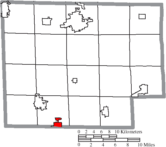 Map of the municipal and township boundaries of Huron County, Ohio, United States, as of the 2000 census, with the location of the village of Plymouth highlighted. Township borders are shown only in unincorporated areas in order to differentiate incorporated and unincorporated areas more clearly.